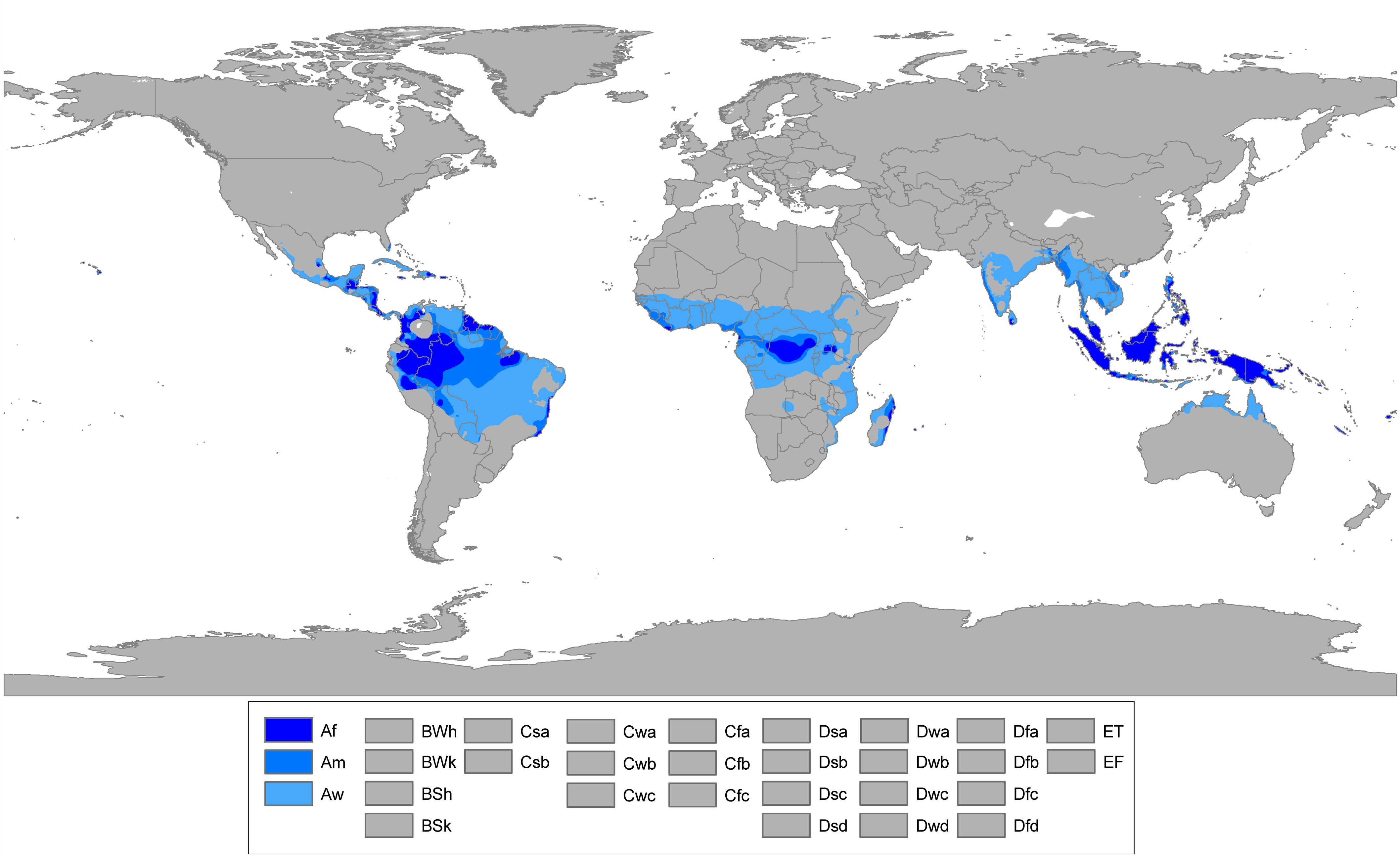 Updated world map of the Köppen-Geiger climate classification. GROUP A: Tropical/megathermal climates (Af, Am, Aw). (old version)